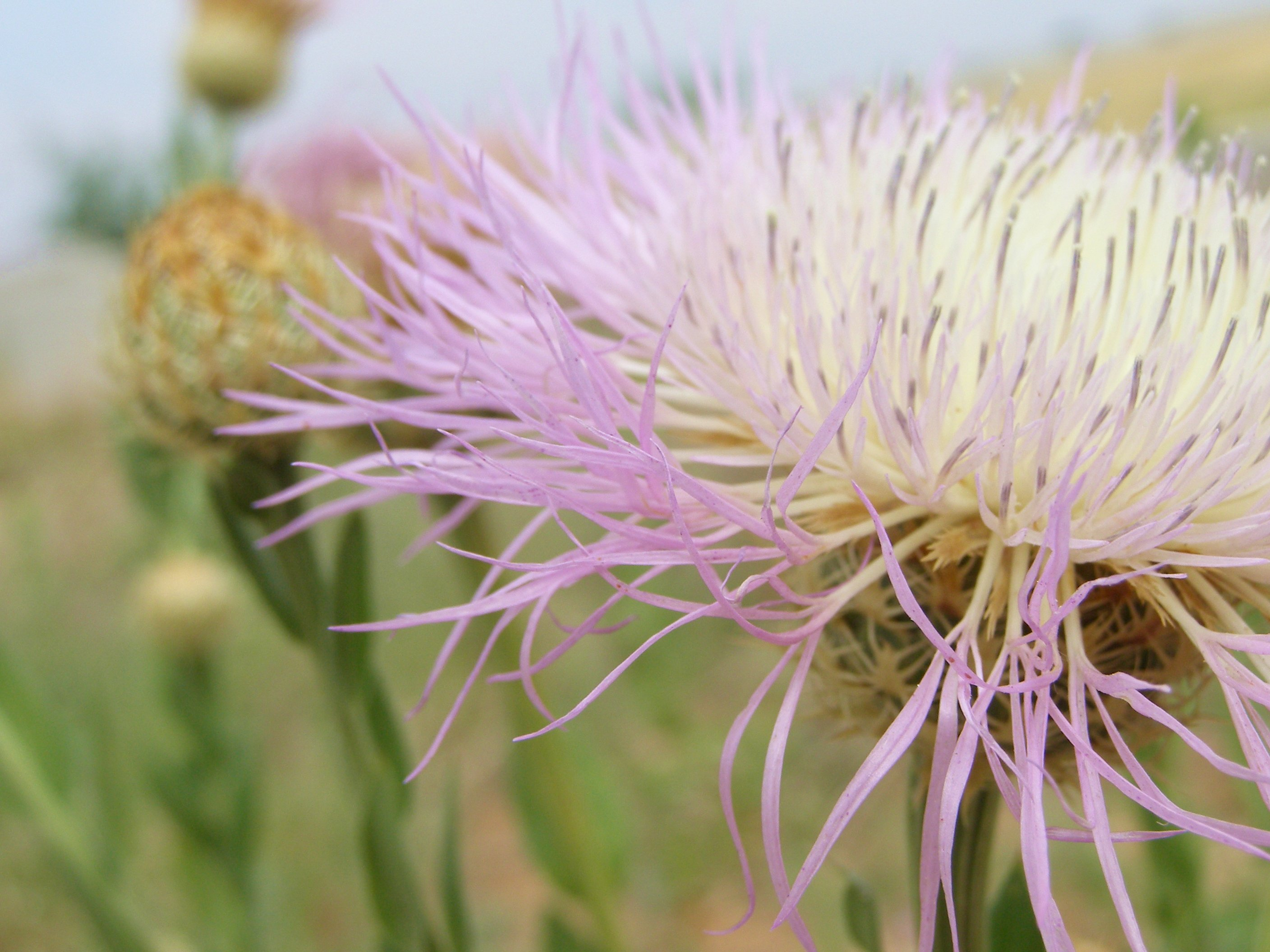 Plectocephalus americanus (Centaurea americana) from the side, Lubbock, TX